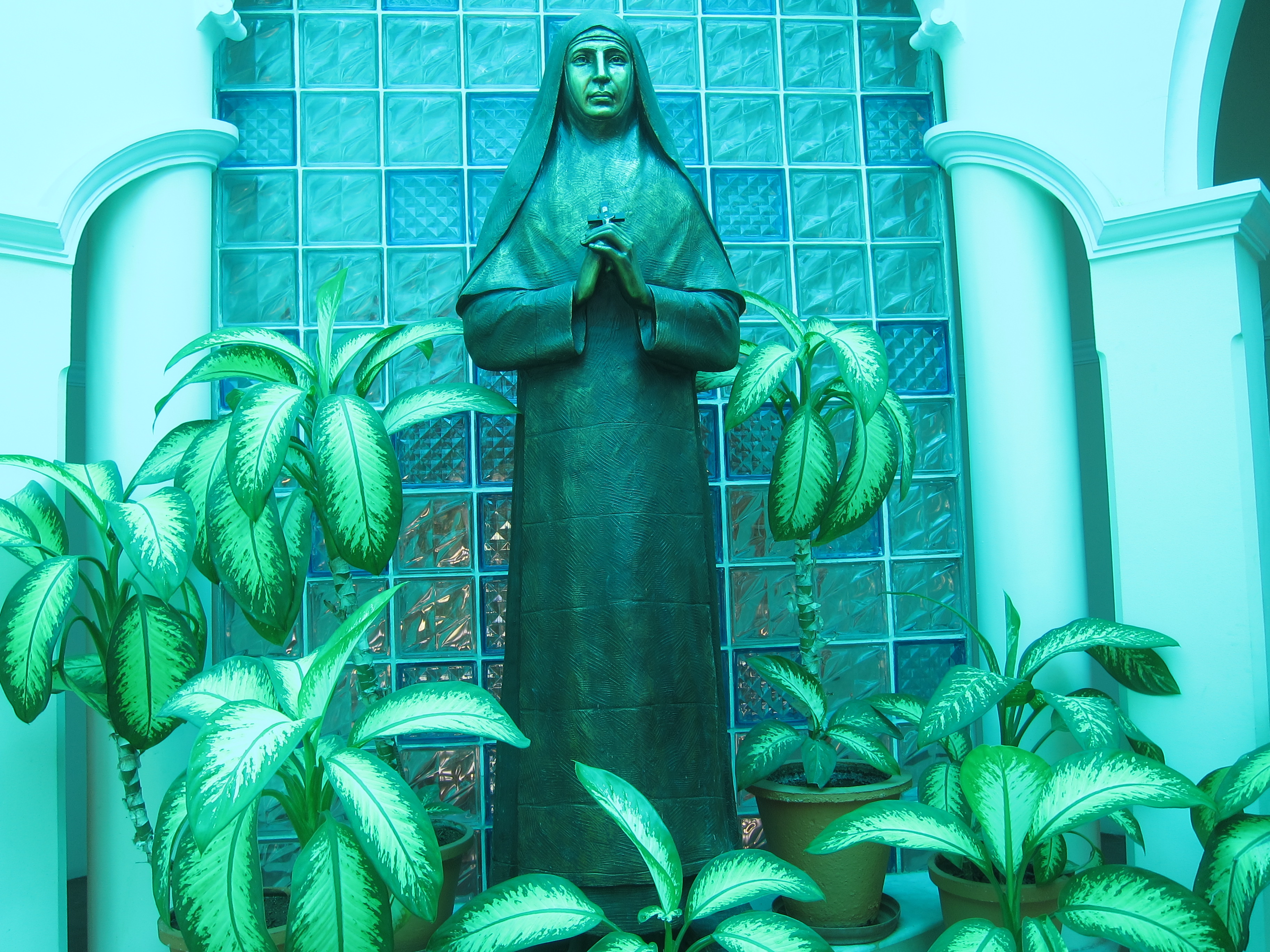 Mariam Thresia - മറിയം ത്രേസ്യ Kuzhikkattussery കുഴിക്കാട്ടുശ്ശേരി Mala Panhchayat മാള പഞ്ചായത്ത് Thrissur District തൃശ്ശൂർ ജില്ല